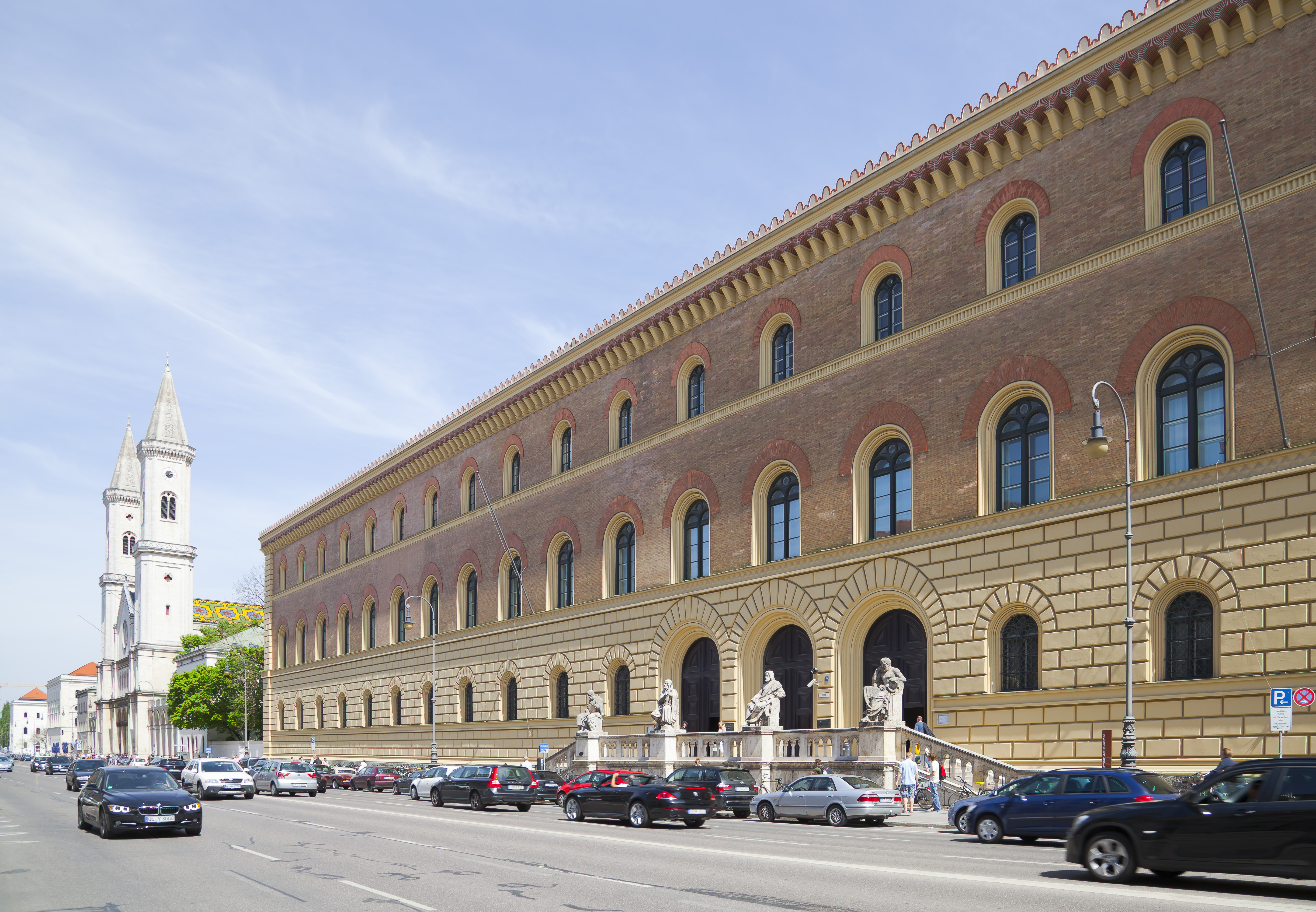 Bavarian State Library, Munich, Germany